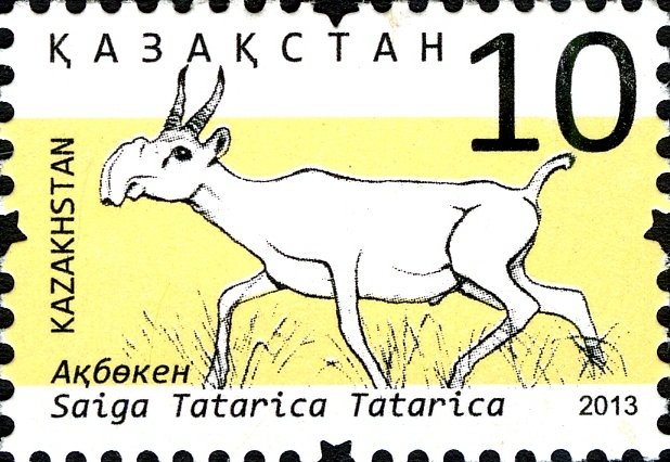 Stamps of Kazakhstan, 2013